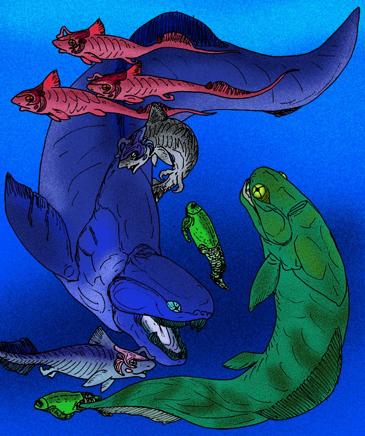 Reconstruction of various Late Devonian placoderms: The arthrodire Dunkleosteus telleri prepares to seize the smaller, Gorgonichthys clarki, while a school of Ctenurella gladbachensis ptyctodonts swim by. The ptyctodonts Rhynchodus major (above D. telleri) and Ptyctodus compressus (below) linger around for scraps and a pair of antiarch's, Asterolepis ornata, scatter.